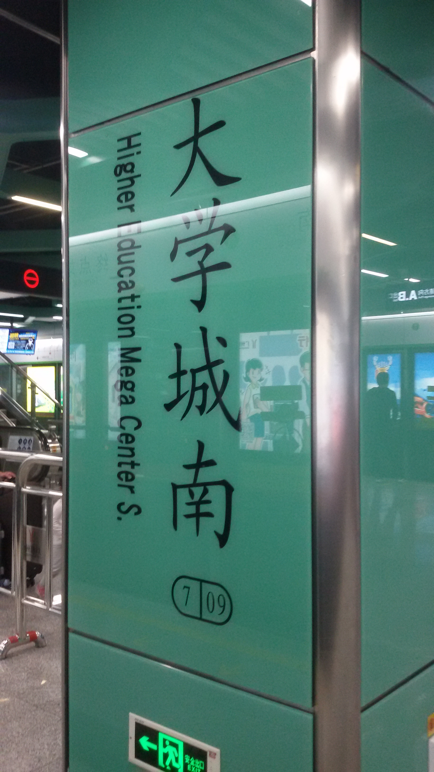 WORD on PILLAR for Line 7 in Higher Education Mega Center South Station, Guangzhou Metro